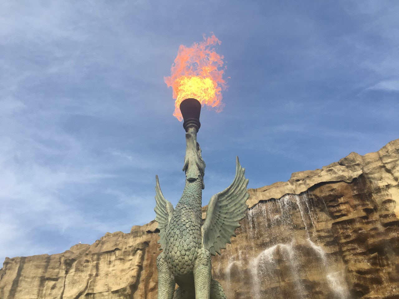 A view of a fire effect on Valhalla at Blackpool Pleasure Beach